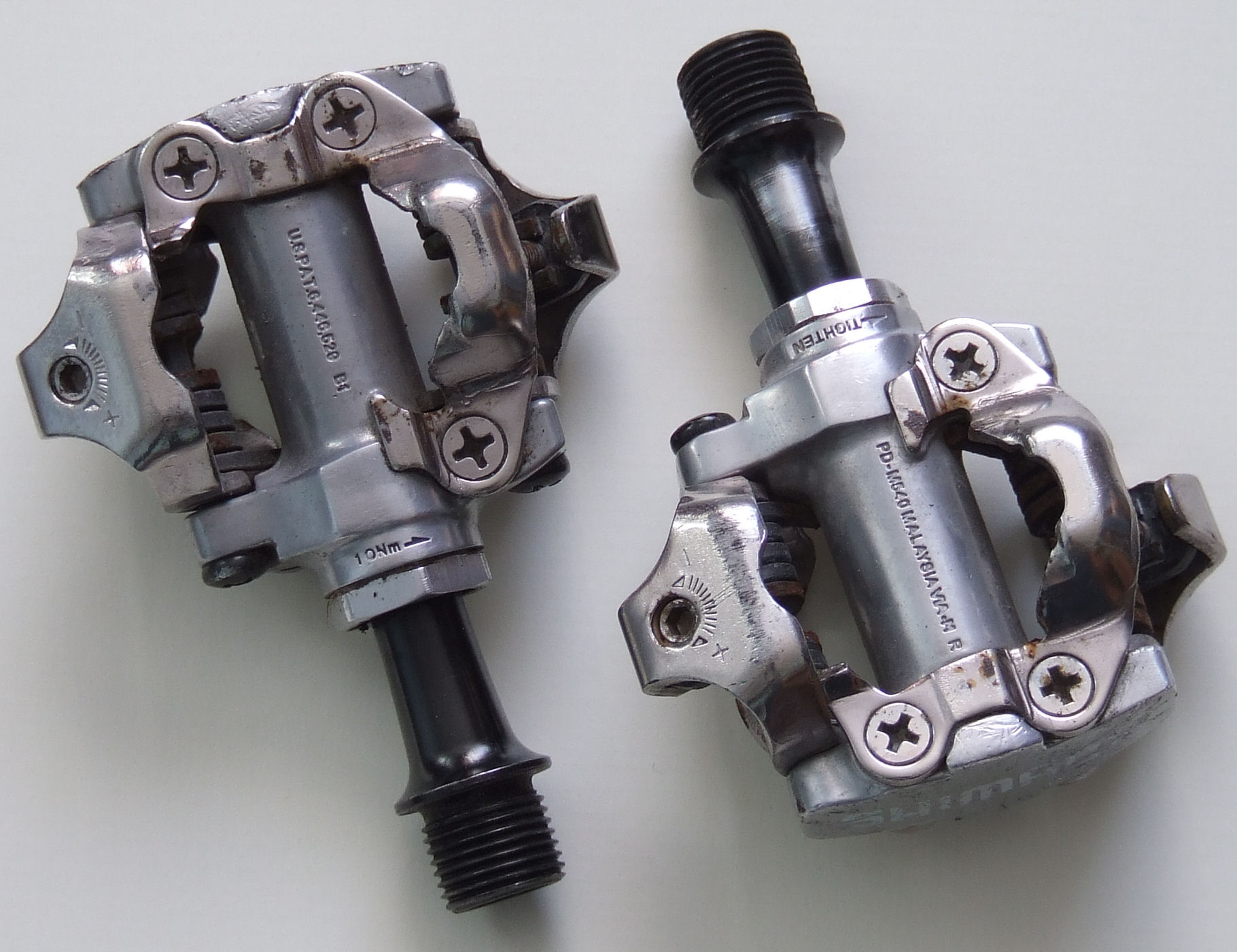 Shimano SPD pedals (PDM-540)